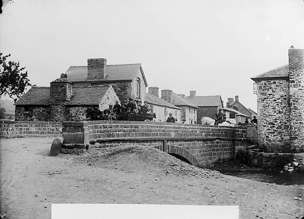 1 negative : glass, dry plate, b&w ; 12 x 16.5 cm.